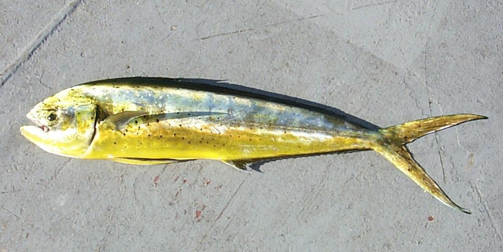 Dolphinfish ( Coryphaena hippurus ) Image ID: fish4173, NOAA's Fisheries Collection Location: Gulf of Mexico Credit: SEFSC Pascagoula Laboratory; Collection of Brandi Noble, NOAA/NMFS/SEFSC